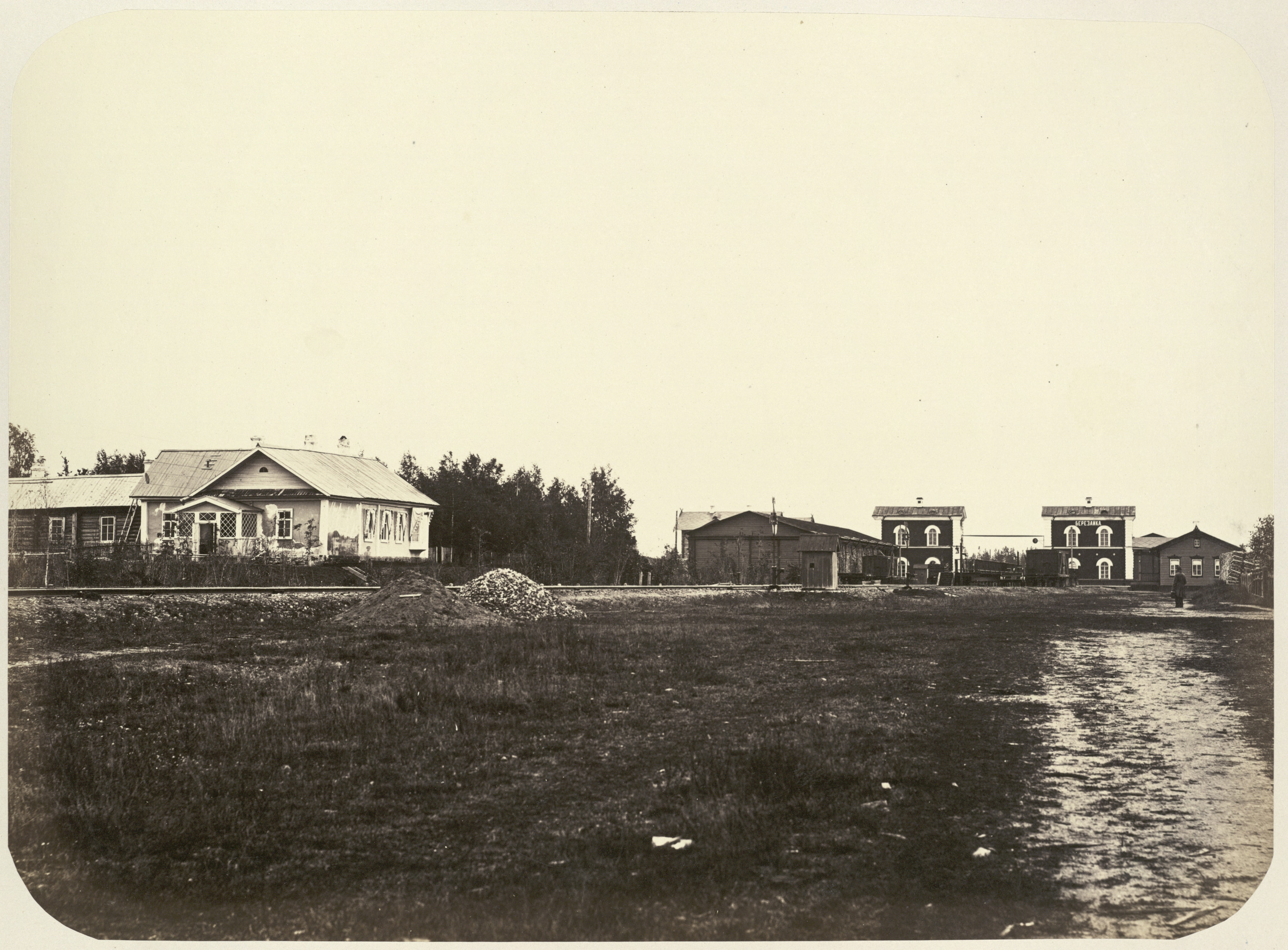 Railway station Berezayka